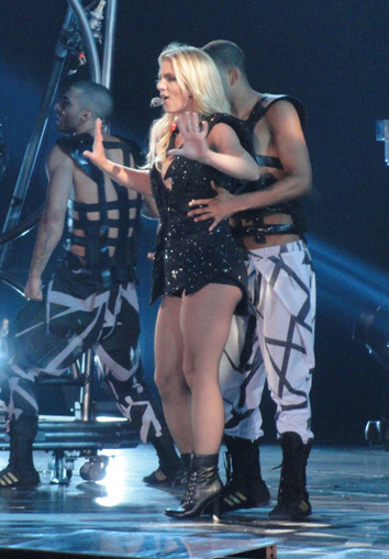 Spears